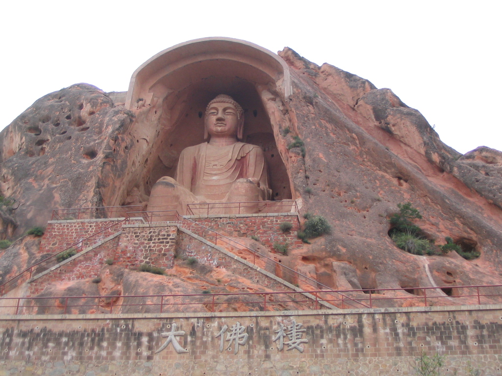 at Guyuan Ningxia China. Excavated during the Northern Wei dynasty (368-534) and were put under periodic reconstruction during later dynasties until the Tang dynasty (618-906).